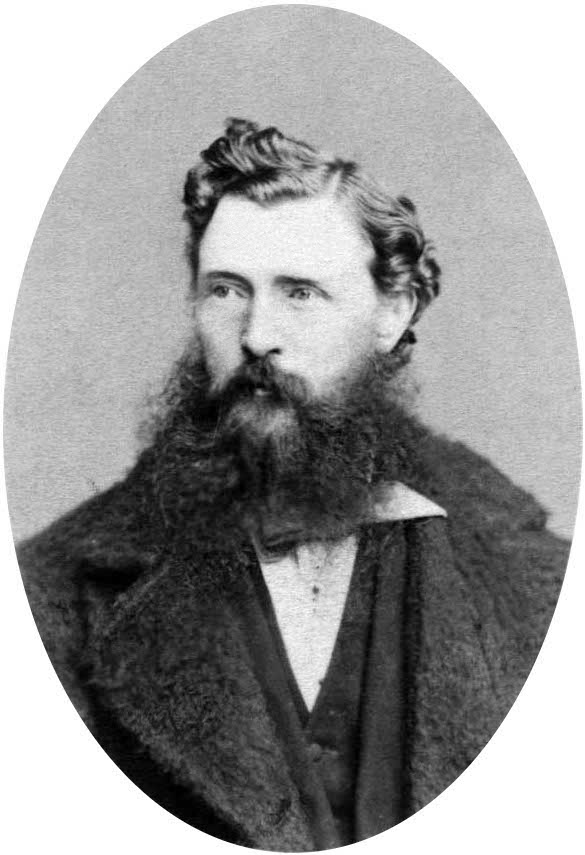 Amsterdam, The Netherlands Portrait of State President Dr. Th. F. Burgers of the South African Republic, in office 1871-1877